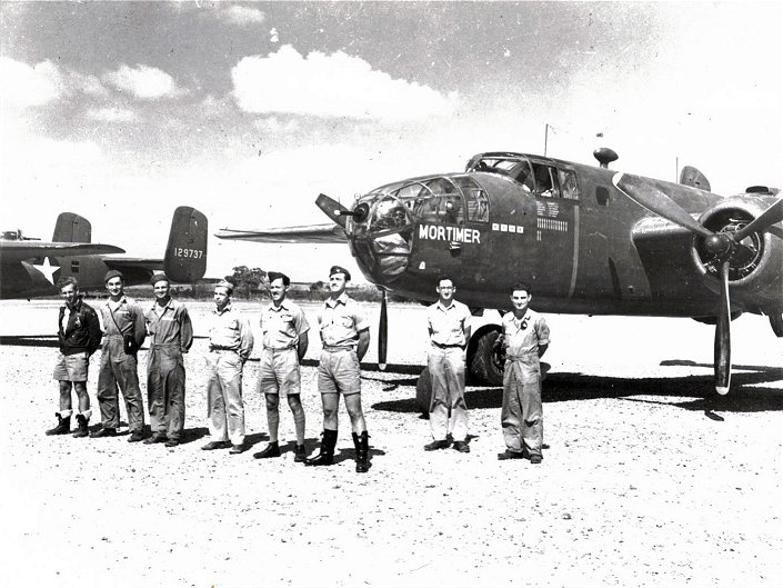 B-25C Mitchell, tail number 41-12443, known as "Mortimer" flew 15 missions from Charters Towers and the crew was credited with shooting down 12 Japanese aircraft. (Photo courtesy of 3rd Wing History Office)